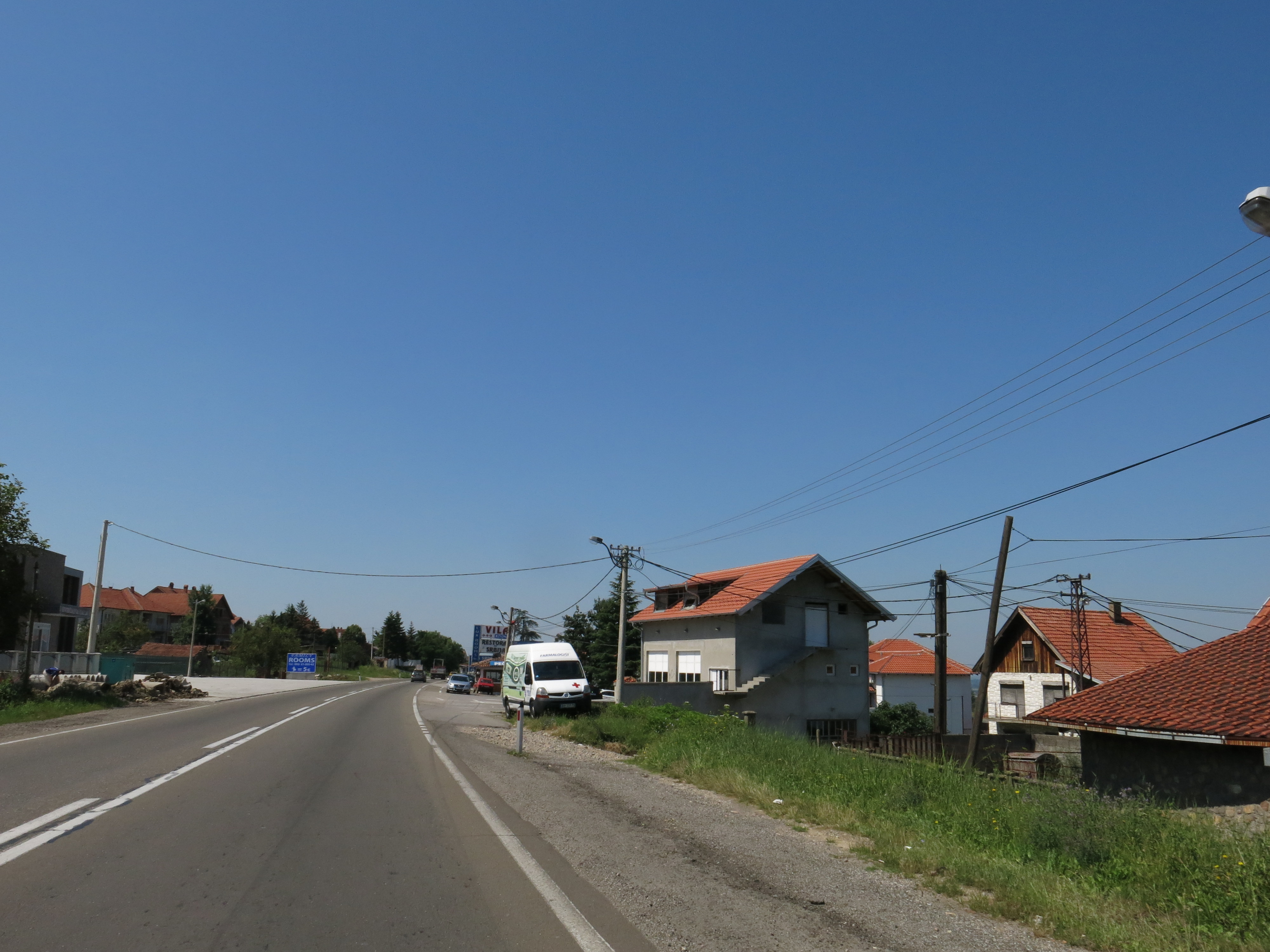 Meljak, Street